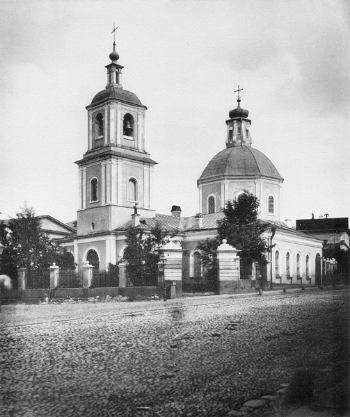 Church of the Entry of the Theotokos, Bolshaya Lubyanka Street, Moscow.